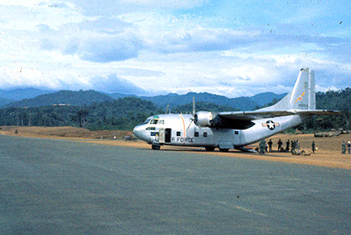 Mule Train Fairchild C-123B Provider Photograph taken in early 1962, note Tactical Air Command Emblem on tail.